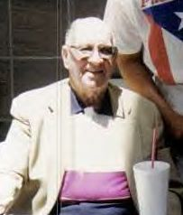 Enos Slaughter, former major league ball player, cropped from existing photograph uploaded to Wikipedia